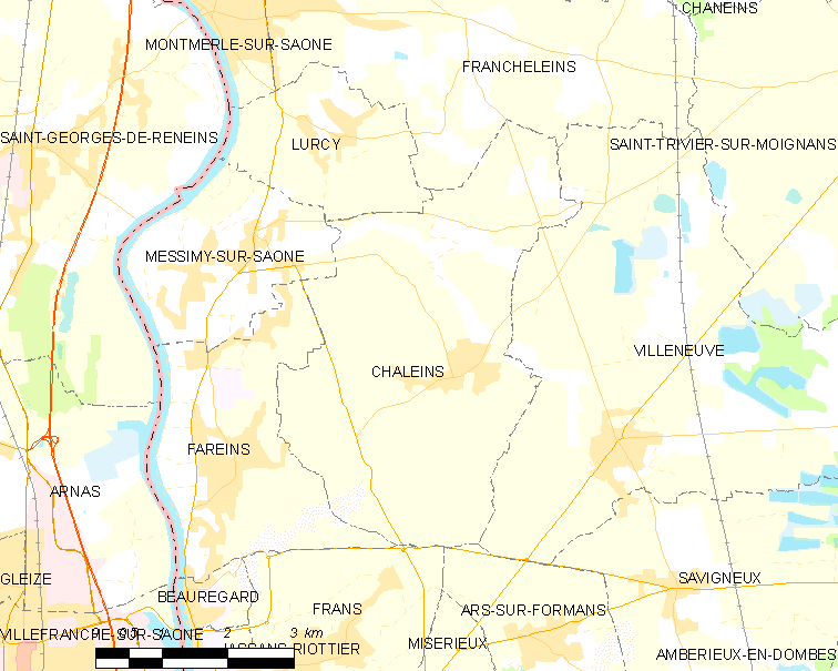 Map of French commune: Chaleins Map commune FR insee code 01075.png